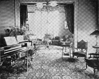 Oakland Female Seminary reception room